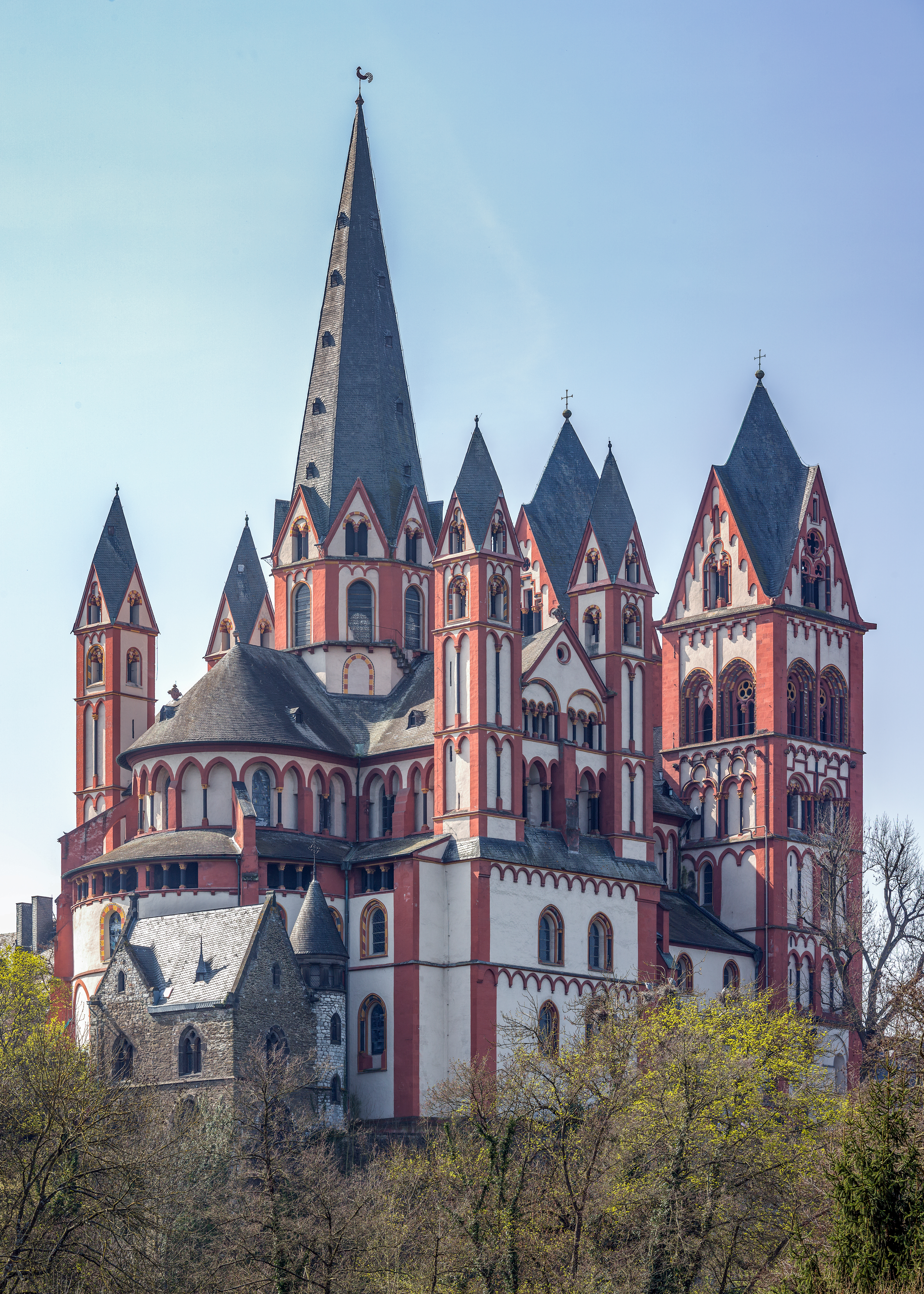 Limburg an der Lahn: Cathedral as seen from the northeast from the Schleusenweg